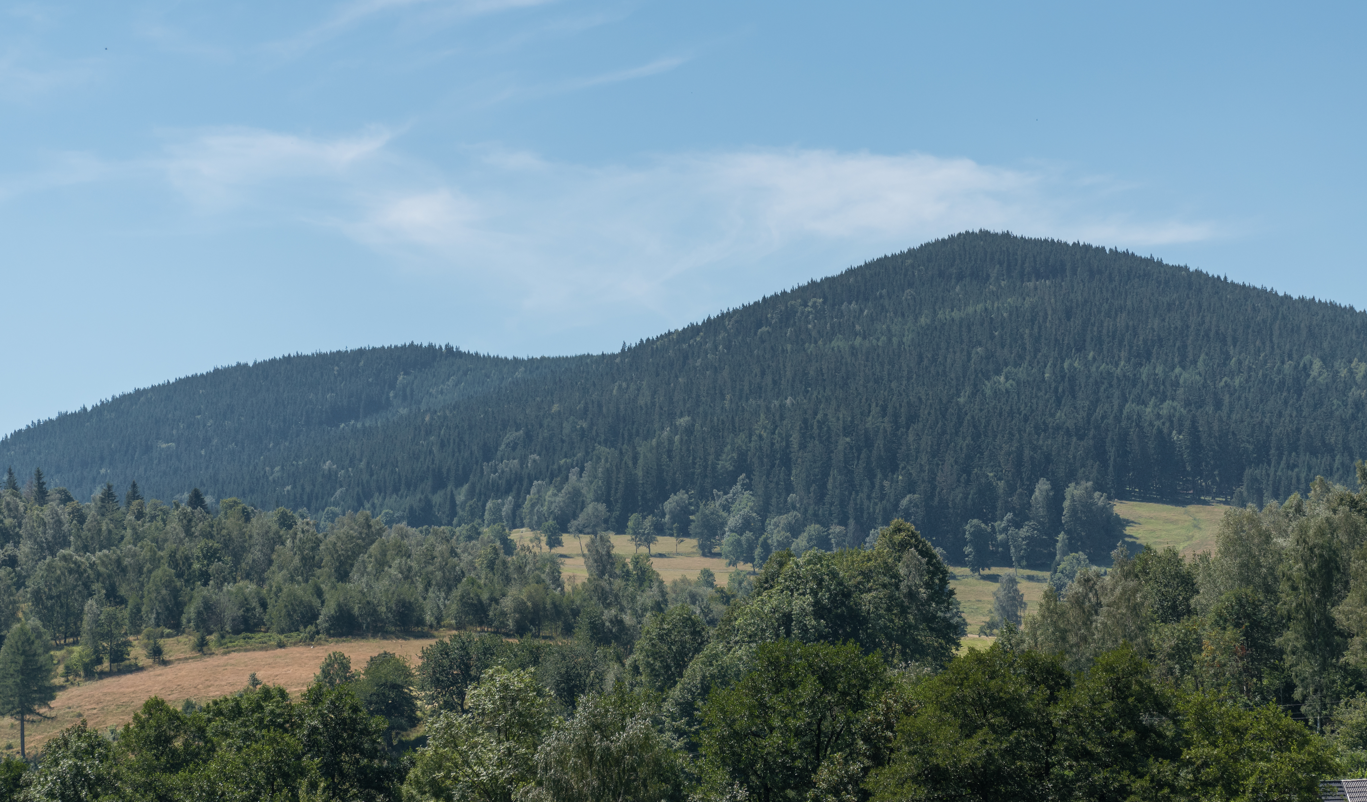 Młyńsko, Śnieżnik Mountains, Sudetes